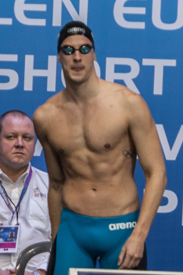 Swimmer Jan-Philip Glania at the 2015 European Short Course Swimming Championships in Netanya